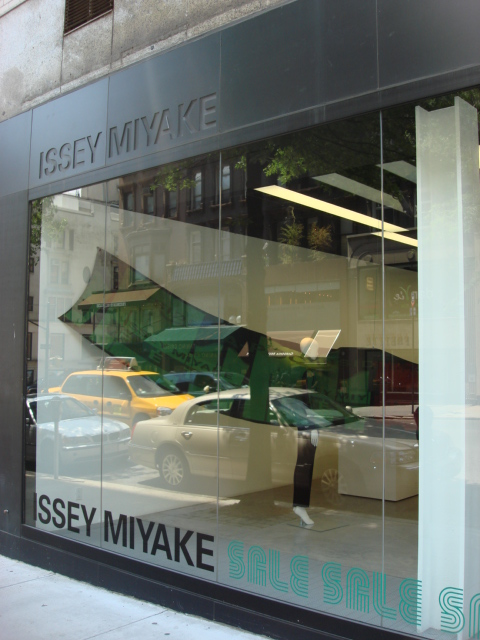 The Issey Miyake store on in .